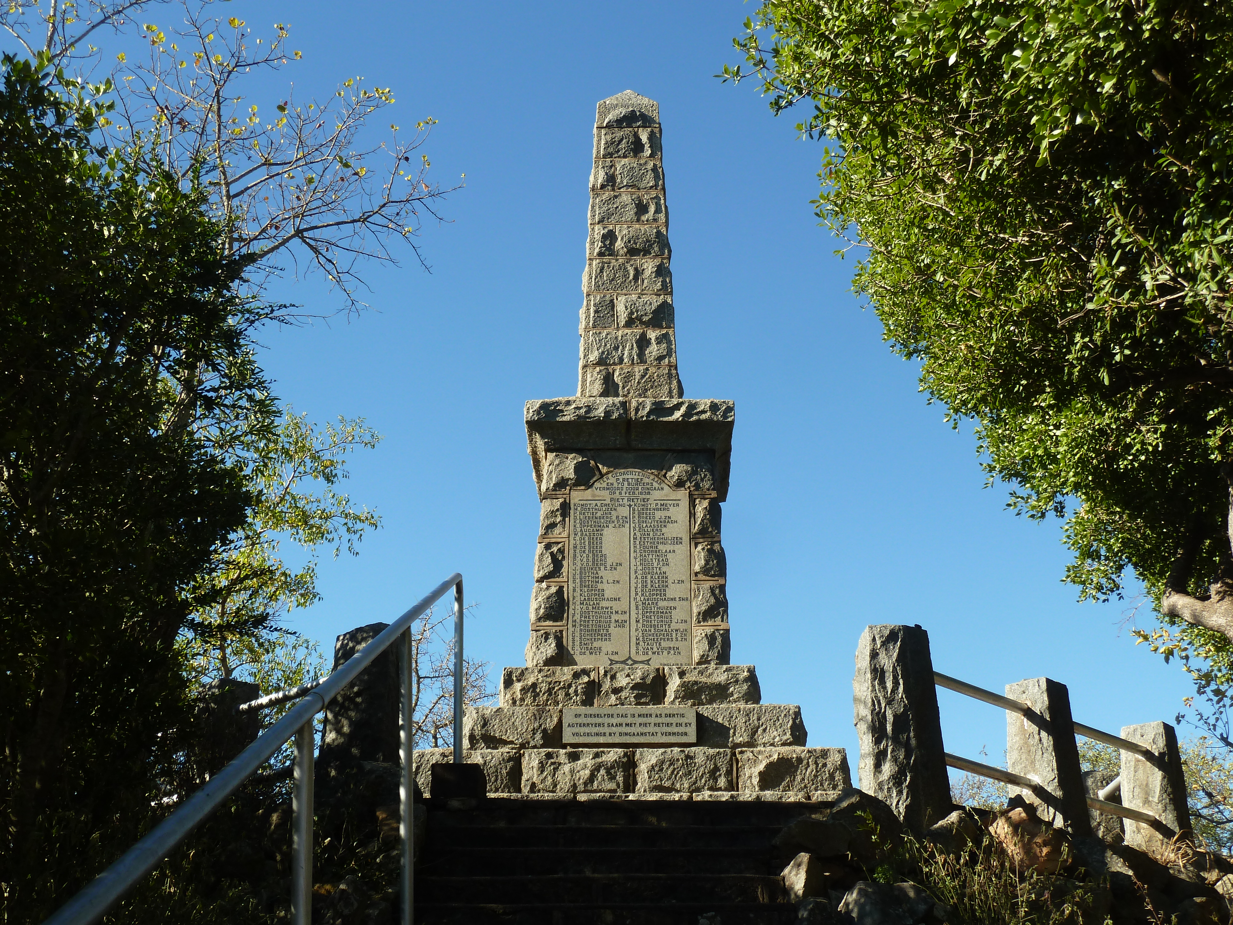 The monument on Execution hill near uMgungundlovu that commemorates the slaughter of the voortrekker leader Piet Retief and his entourage of 72 men, 14 sons and 30 servants on 6 February 1838. The monument, dating from 1922, overlooks the mass grave in which the remains of the deceased were buried by the Wen commando on 21 December 1838. Ter gedachtenis aan P. Retief en 70 burgers vermoord door Dingaan op 6 Feb. 1838. (In memory of P. Retief and 70 citizens murdered by Dingane on 6 Feb. 1838) 1. PIET RETIEF 2. Komdt: A. GREYLING Komdt: P. MEYER 3. M. Oosthuijzen B. Liebenberg 4. P. Retief JNR. P. Breed 5. D. Liebenberg & B. (Zn) P. Breed & J. (Zn) 6. K. Oosthuizen & P. (Zn) C. Breijtenbach 7. K. Opperman & J. (Zn) J. Claassen 8. D. Aucamp P. Cilliers 9. W. Basson A. van Dijk 10. C. de Beer M. Estherhuizen 11. J. de Beer S. Estherhuizen 12. M. de Beer H. Fourie 13. S. de Beer R. Grobbelaar 14. B. v.d. Berg J. Hattingh 15. P. v.d. Berg T. Holstead 16. P. v.d. Berg & J. (Zn) J. Hugo & P. (Zn) 17. J. Beukes & C. (Zn) J. Jooste 18. J. Botha P. Jordaan 19. G. Bothma A. de Klerk 20. G. Bothma & L. (Zn) J. de Klerk & J. (Zn) 21. J. Breed J. de Klerk 22. B. Klopper C. Klopper 23. L. Klopper P. Klopper 24. F. Labuschagne H. Labuschagne SNR. 25. H. Malan C. Maré 26. J. v.d. Merwe B. Oosthuizen 27. J. Oosthuizen & M. (Zn) J. Opperman 28. F. Pretorius J. Pretorius 29. M. Pretorius & M. (Zn) M. Pretorius & J. (Zn) 30. M. Pretorius JNR. I. Robberts 31. J. Robberts P. van Schalkwijk 32. G. Scheepers J. Scheepers & F. (Zn) 33. S. Scheepers M. Scheepers & S. (Zn) 34. S. Smit M. Taute 35. C. Visagie S. van Vuuren 36. J. de Wet & J. (Zn) H. de Wet & P. (Zn) Op dieselfde dag is meer as dertig agterryers saam met Retief en sy volgelinge by Dingaanstat vermoor.